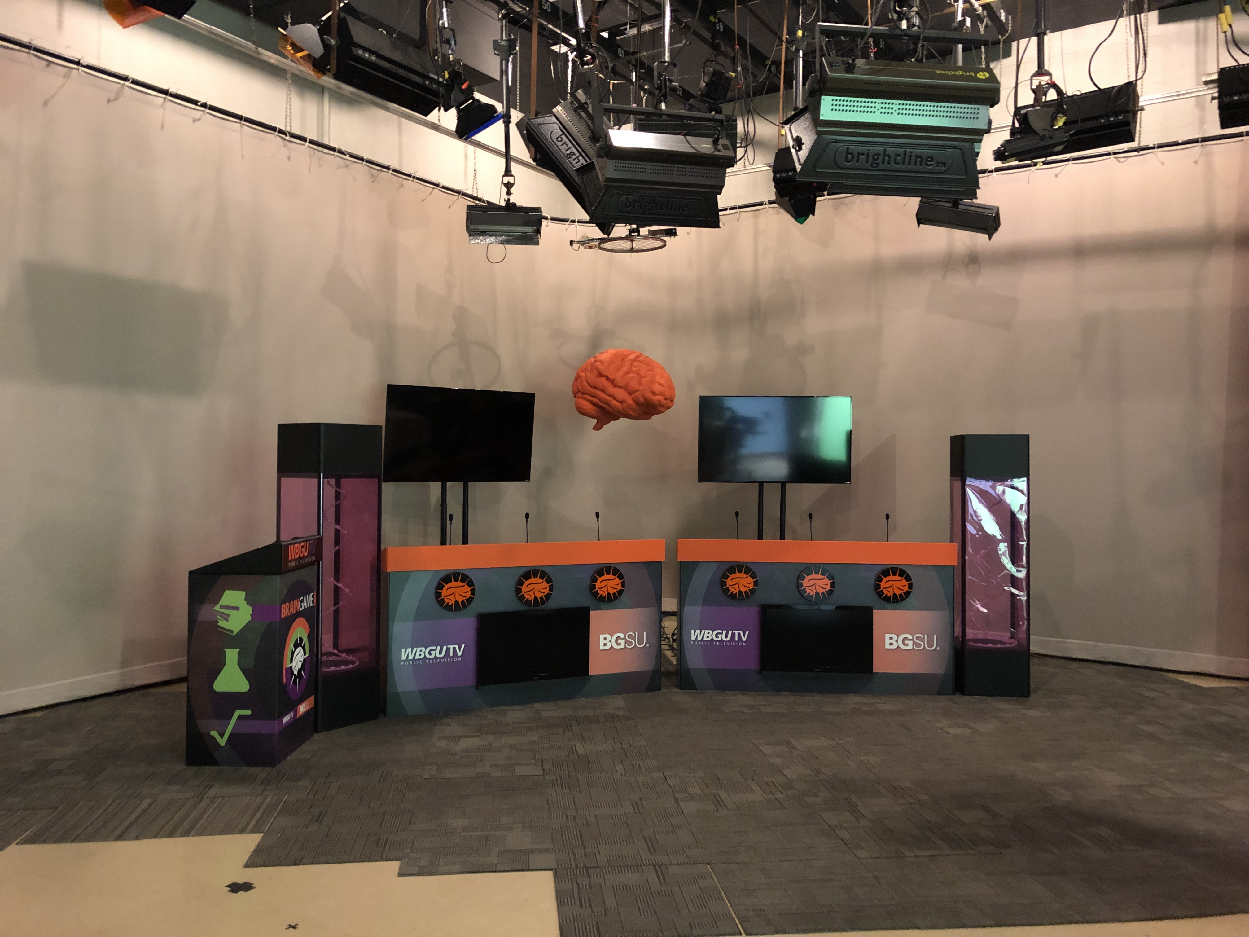 WBGU-TV's Brain Set